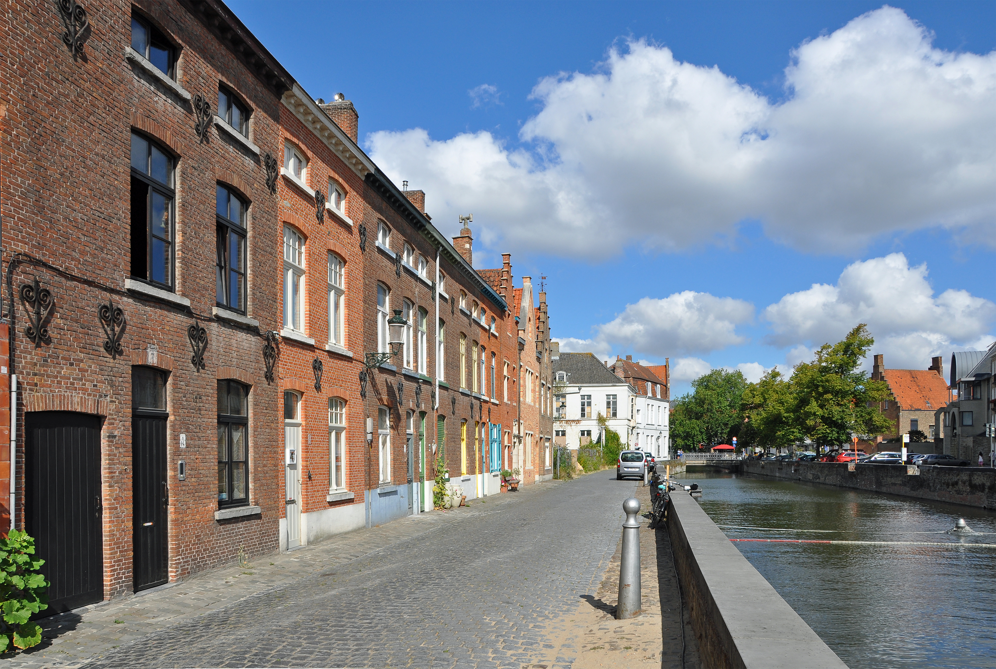 Bruges (Belgium): Coupure (street and canal)